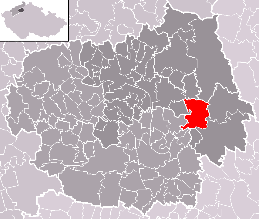 Location of Hoštka town within Litoměřice District and administrative area of Litoměřice as a Municipality with Extended Competence.